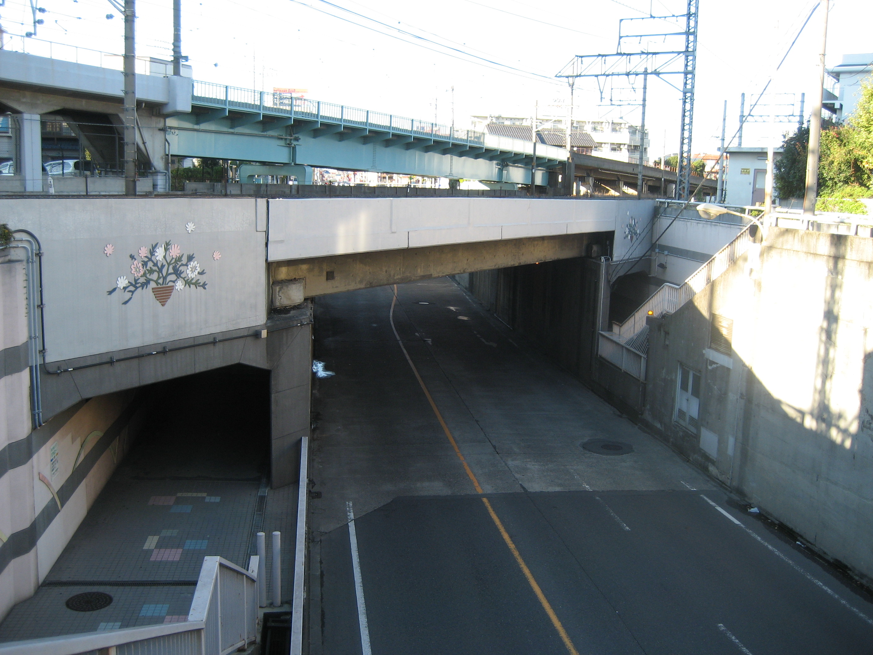 Saitama Prefectural Road Route 164 under the Tohoku Main Line and Tobu Noda Line in Omiya-ku, Saitama City